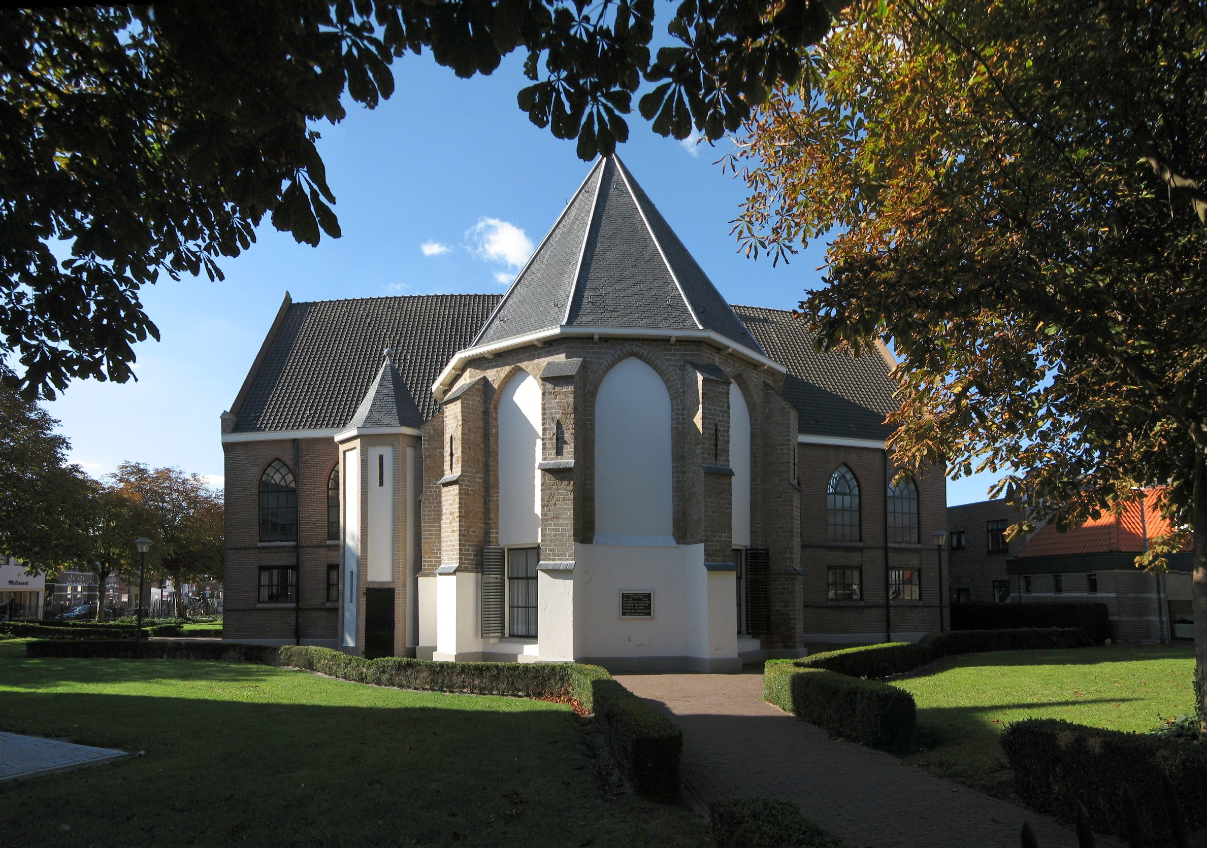 The main church of Ouddorp, located at the Weststraat 2, Ouddorp, The Netherlands. This is the east side of the church. This picture was stitched with Windows Photo Gallery.